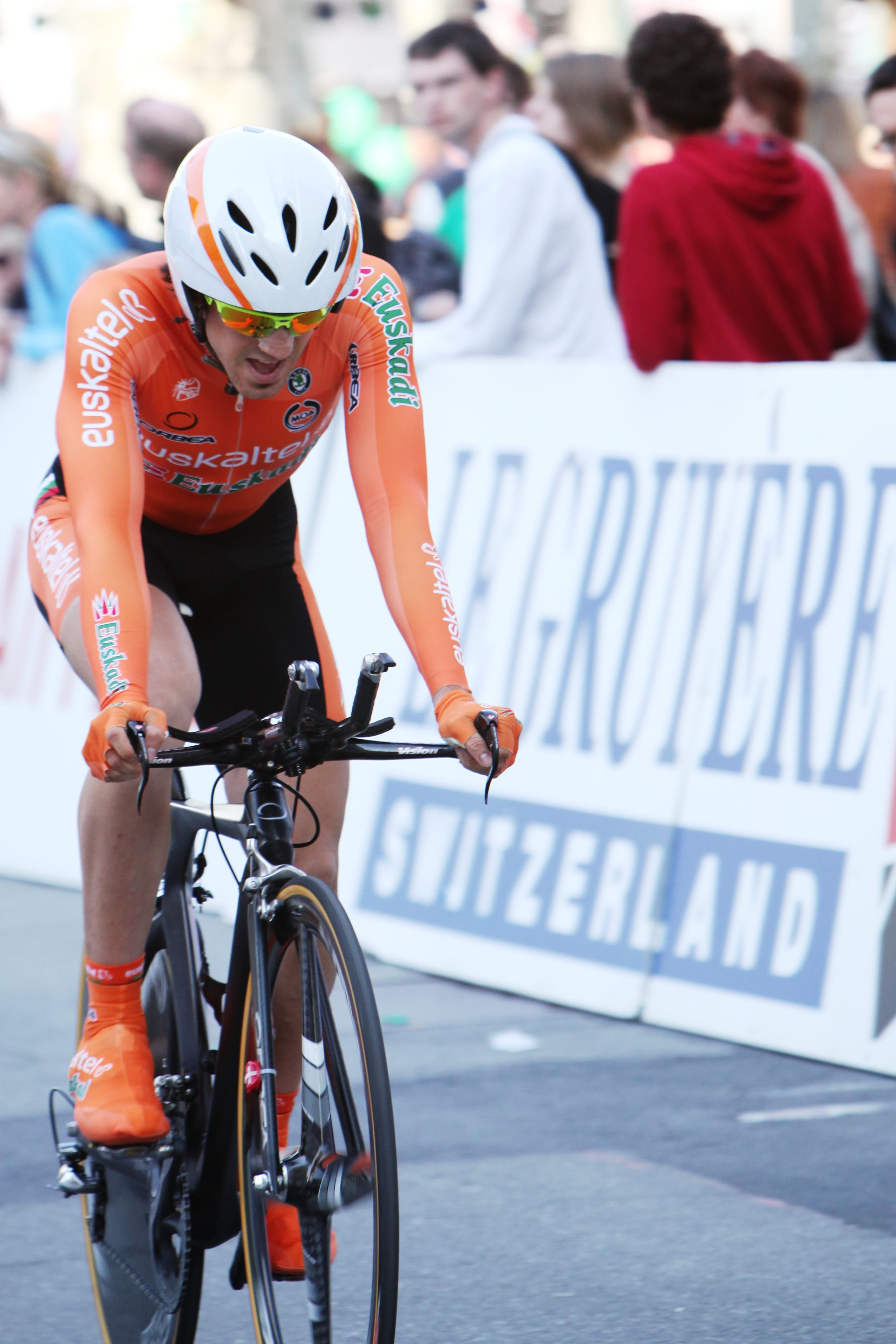 Jon Izagirre at the prologue of the Tour de Romandie 2011